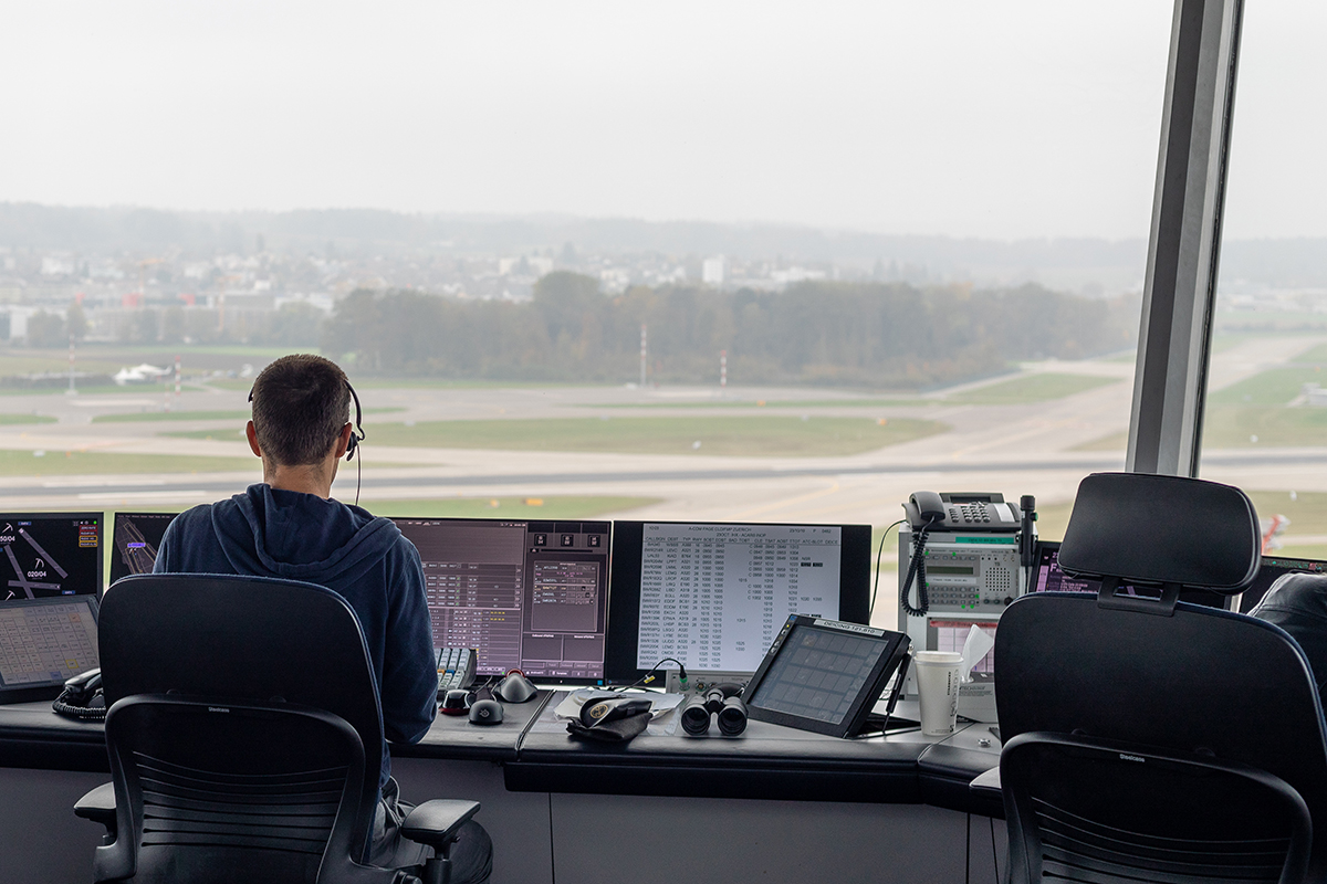 A air traffic controller from Switzerland's Skyguide working in the airport tower of Zurich.